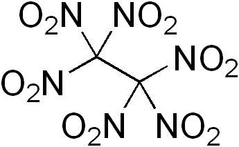 chemical structure of hexanitroethane